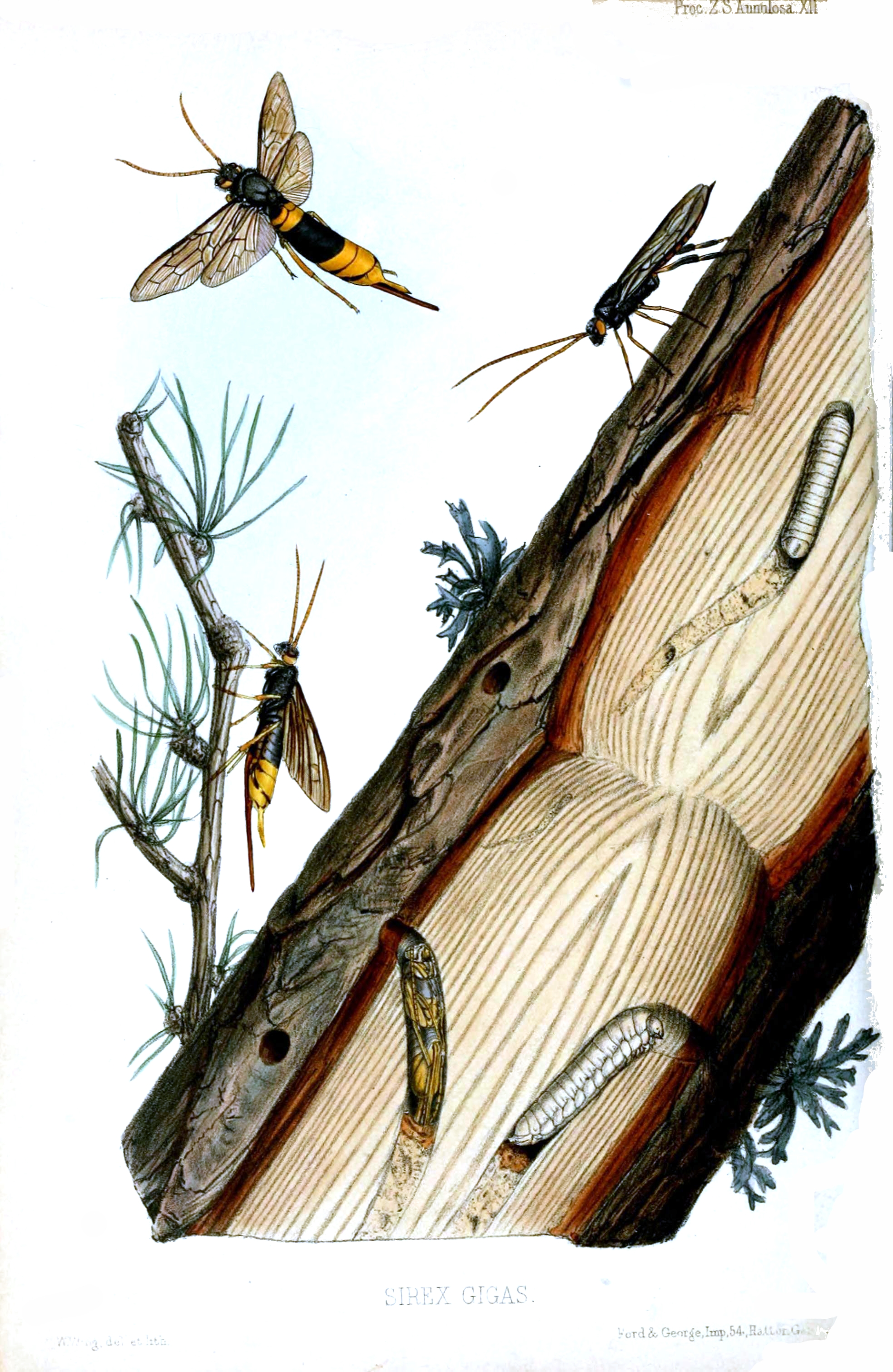 Giant Woodwasp, life cycle: larvae (right), pupa (bottom left), adult male (top right), adult females (left)